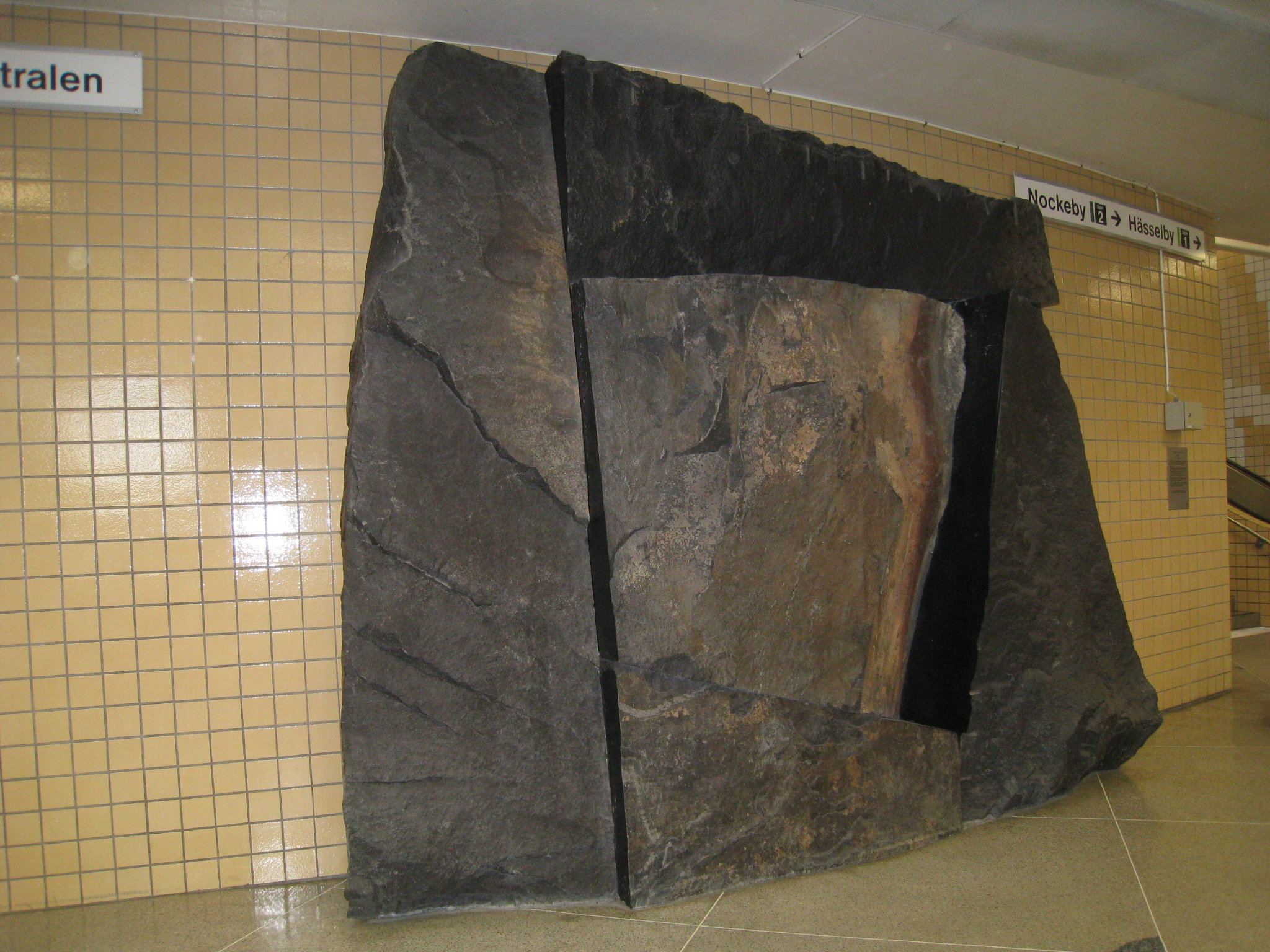 "Dawn Source", a 28-kg heavy work composed of 5 diabase blocks from northern Skåne, by the Japanese-Swedish artist Henjasaj Koda (born 1947), set up in 1999 in the stair hall to Alvik underground railway station, Bromma, Stockholm.